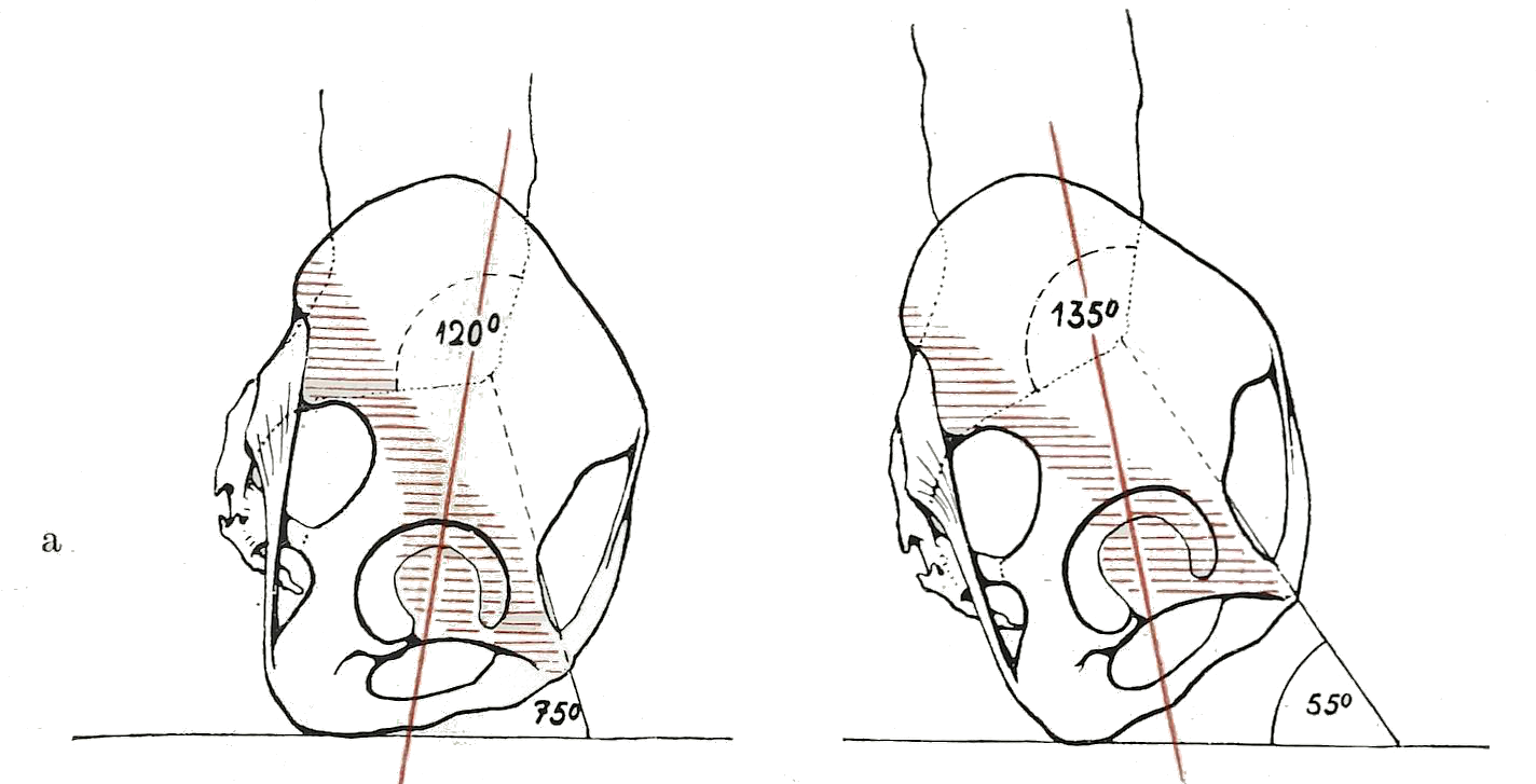 An anatomical illustration from the 1921 German edition of Anatomie des Menschen: ein Lehrbuch für Studierende und Ärzte with latin terminology.